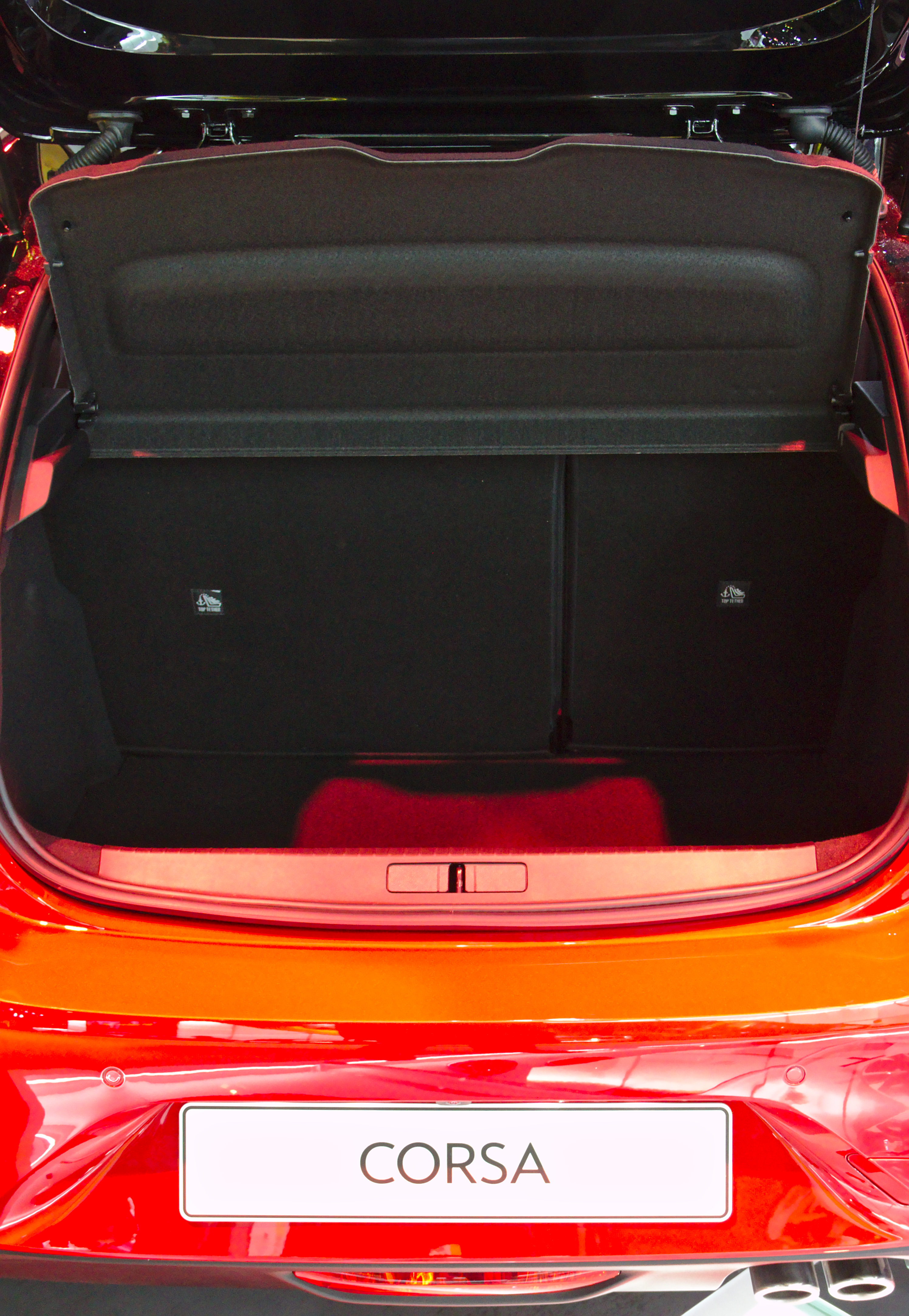 Opel_Corsa_F at IAA 2019